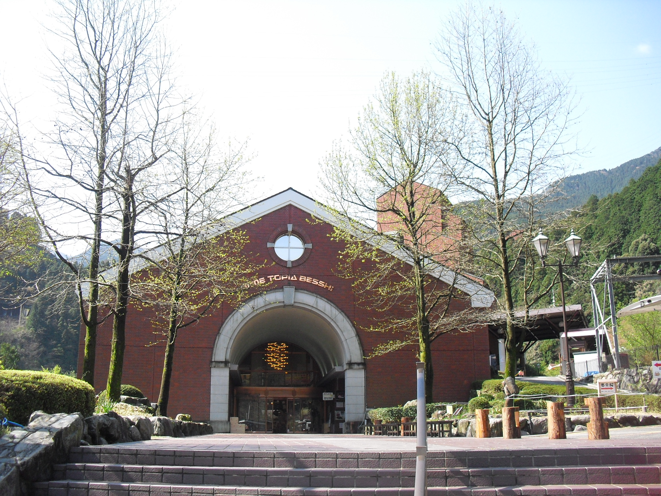 Roadside Station Mine topia Besshi